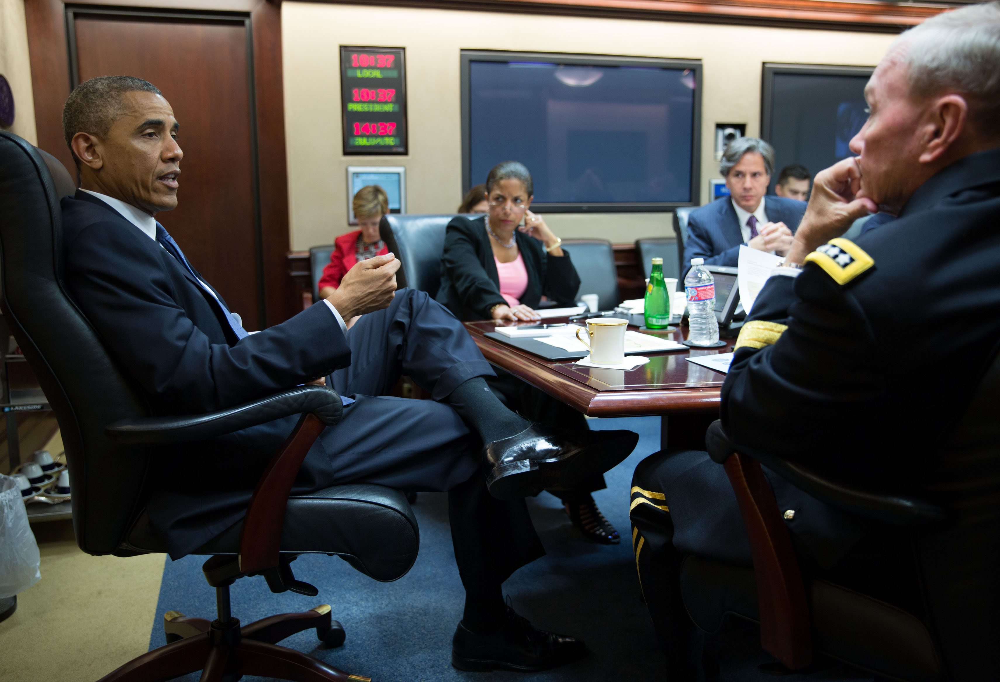 President Barack Obama meets with his national security advisors in the Situation Room of the White House, Aug. 7, 2014. (Official White House Photo by Pete Souza)